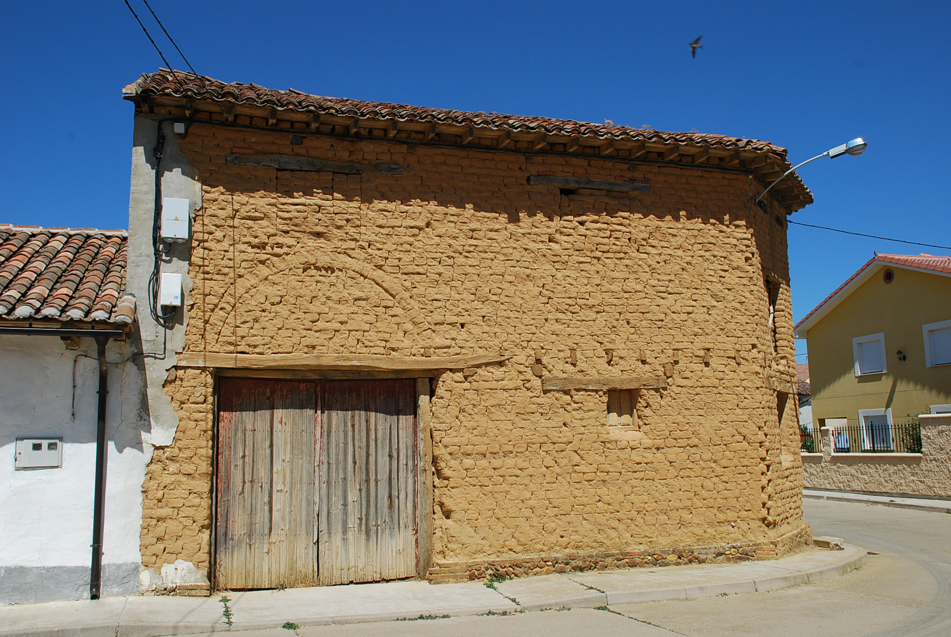 Renedo de Valdavia (Palencia, Castile and León).